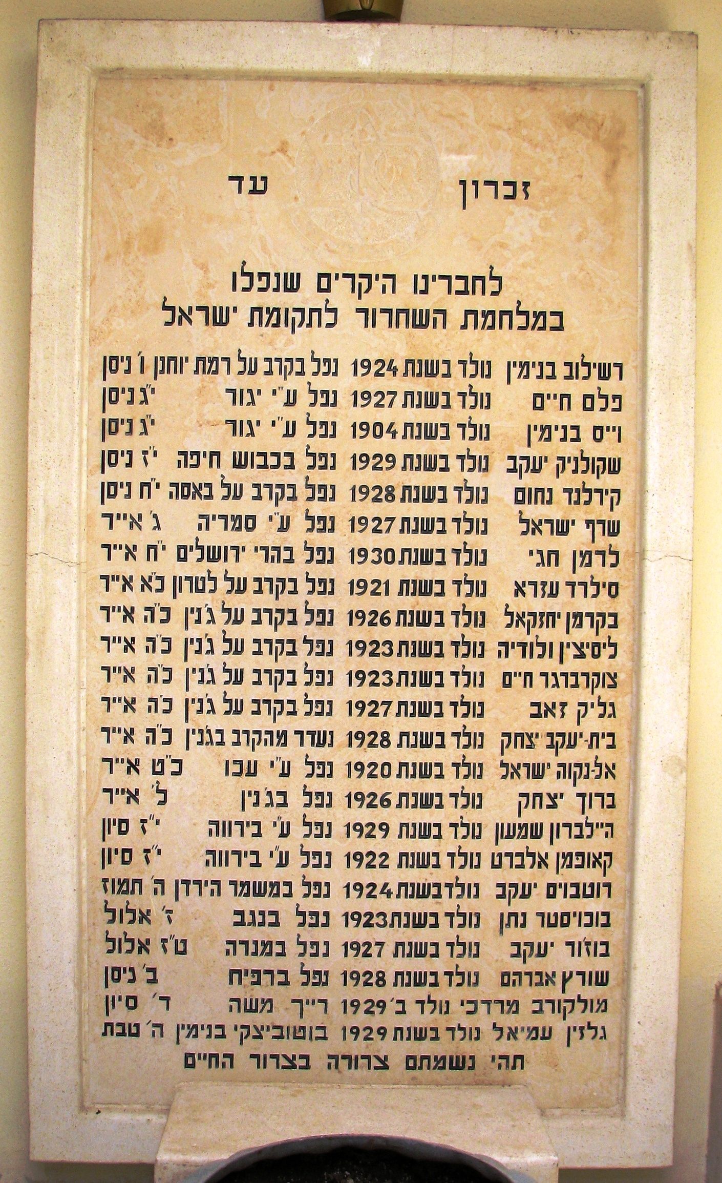 Memorial plaque for the sons of Nesher fallen in Milhemet HaAtzma'ut